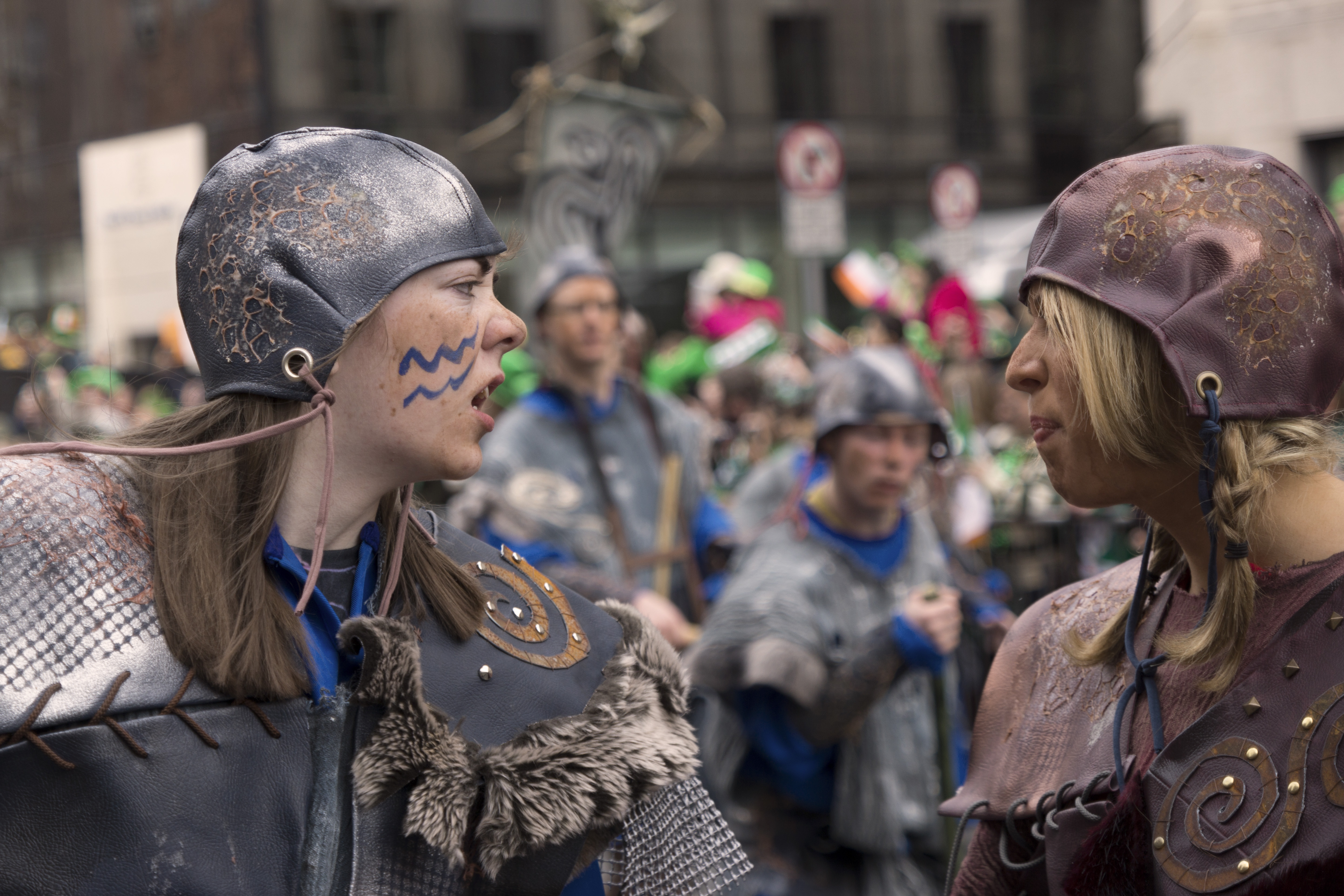 St Patrick's Parade 2014. Dublin, Ireland.